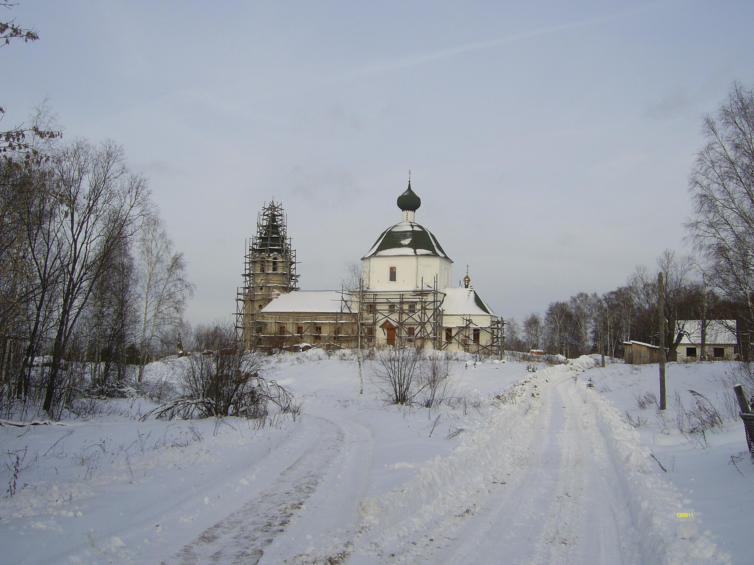 charge /2011